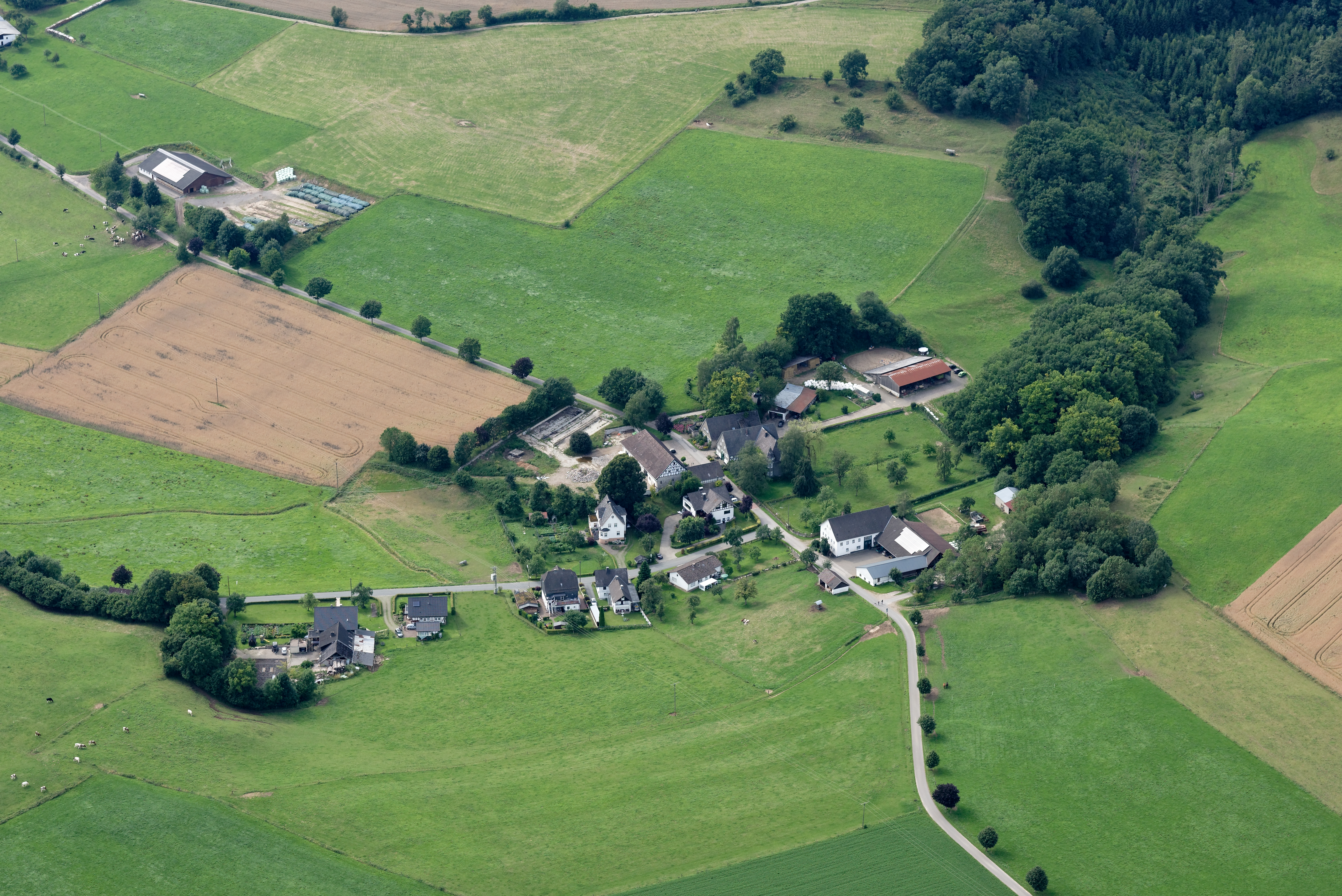 The making of this document was supported by the Community-Budget of Wikimedia Germany. Lennestadt-Hespecke